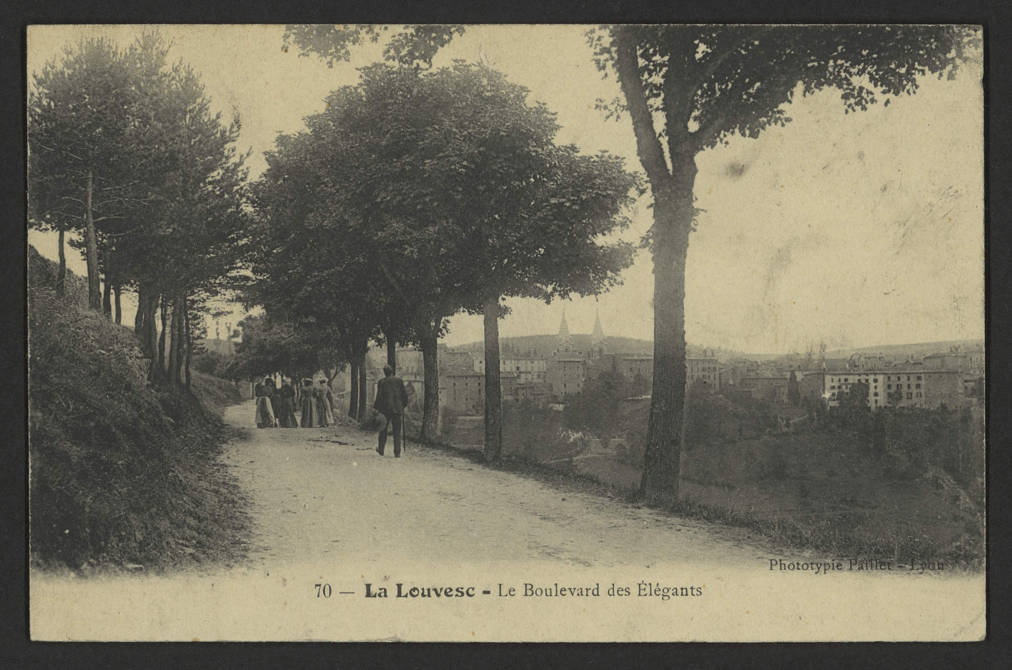 Ardèche